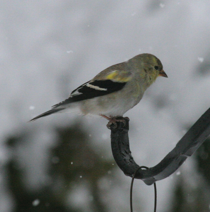 American Goldfinch in Albany, New York